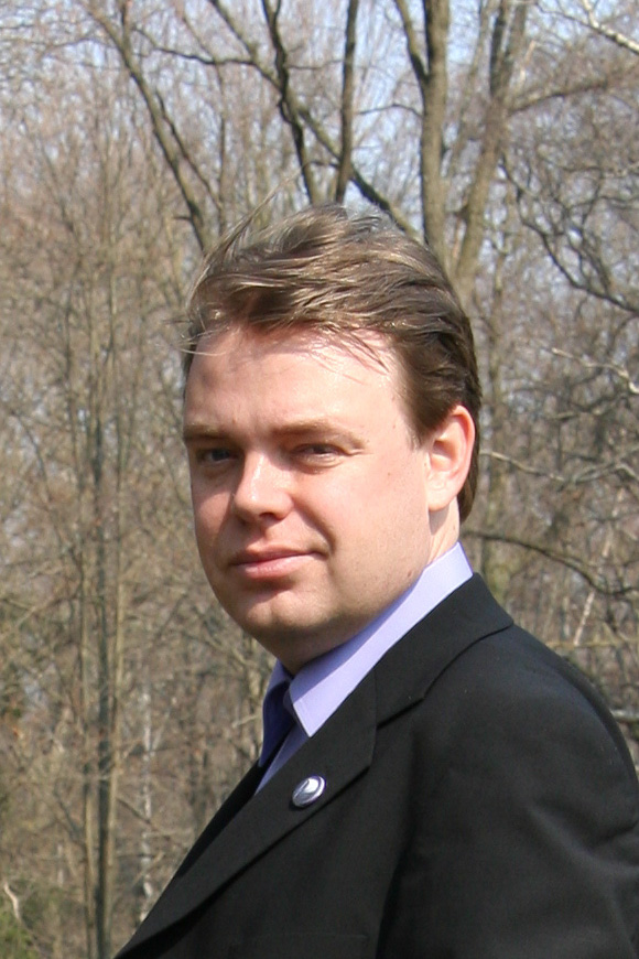 Rickard Falkvinge, founder of the Swedish Pirate Party.